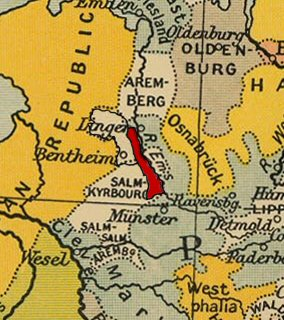 Base map is Cambridge Modern History Atlas, showing year 1803; Rheina-Wolbeck added by Känsterle.